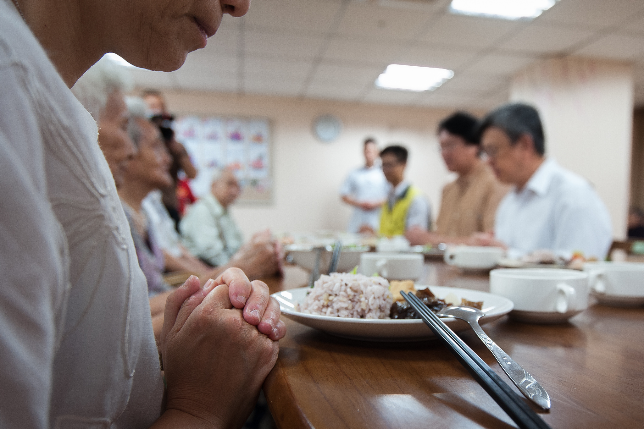 授權方式及範圍：中華民國總統府│政府網站資料開放宣告 Authorization Method & Scope: Office of the President, Republic of China (Taiwan) | Government Website Open Information Announcement